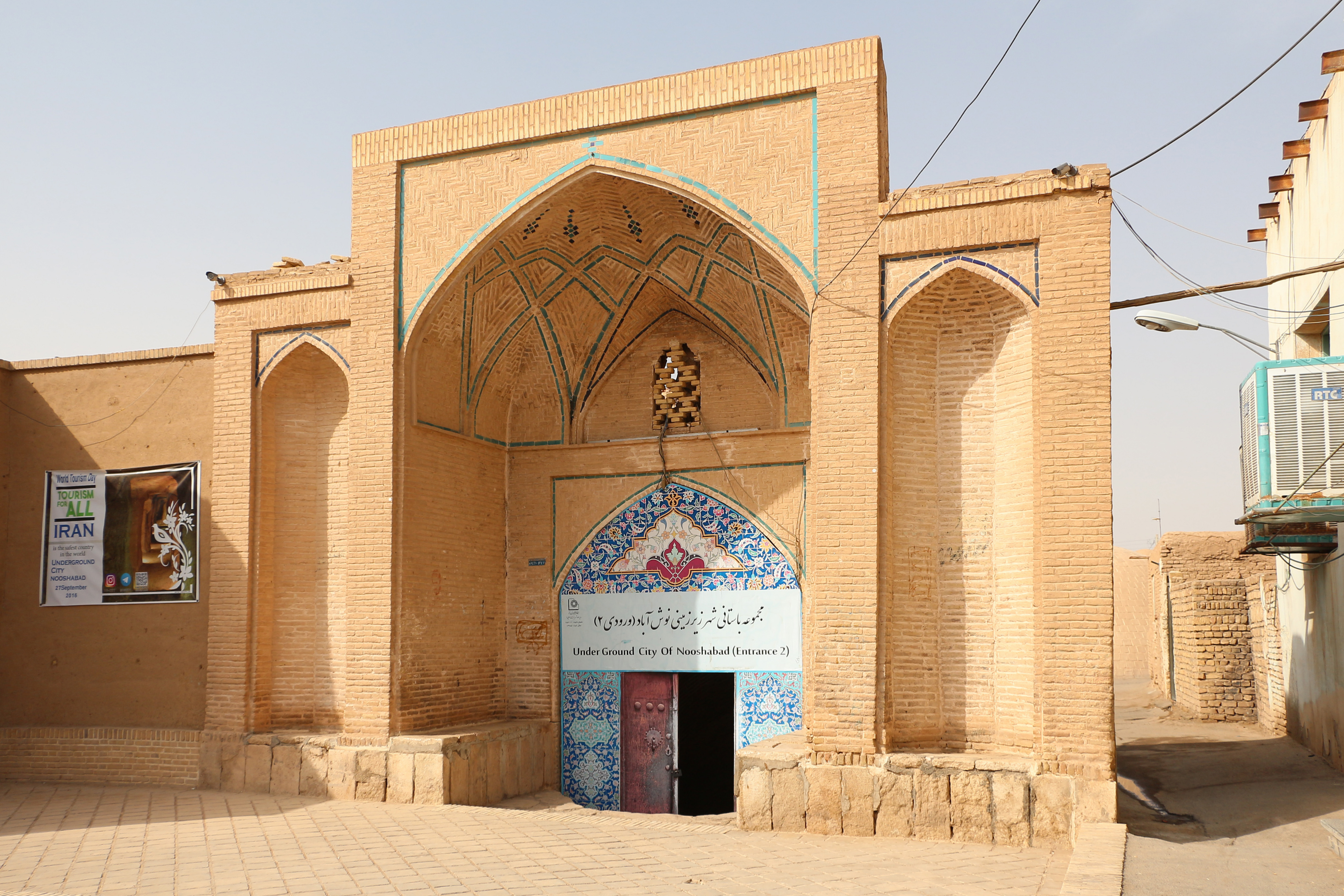 Entrance 2 of Underground City of Nooshabad, Iran